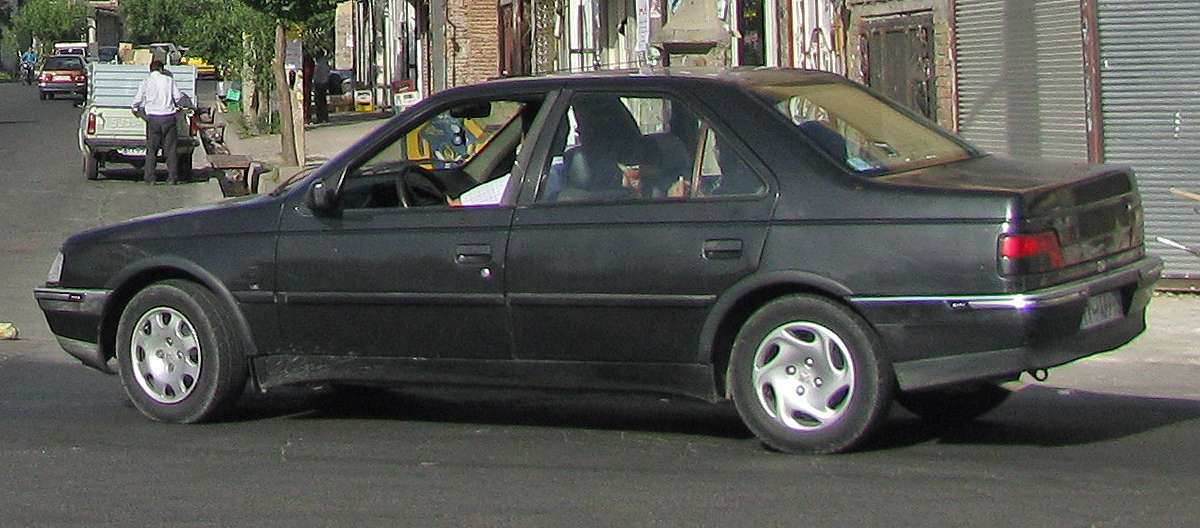 Iran Khodro-built Peugeot 405 GLX